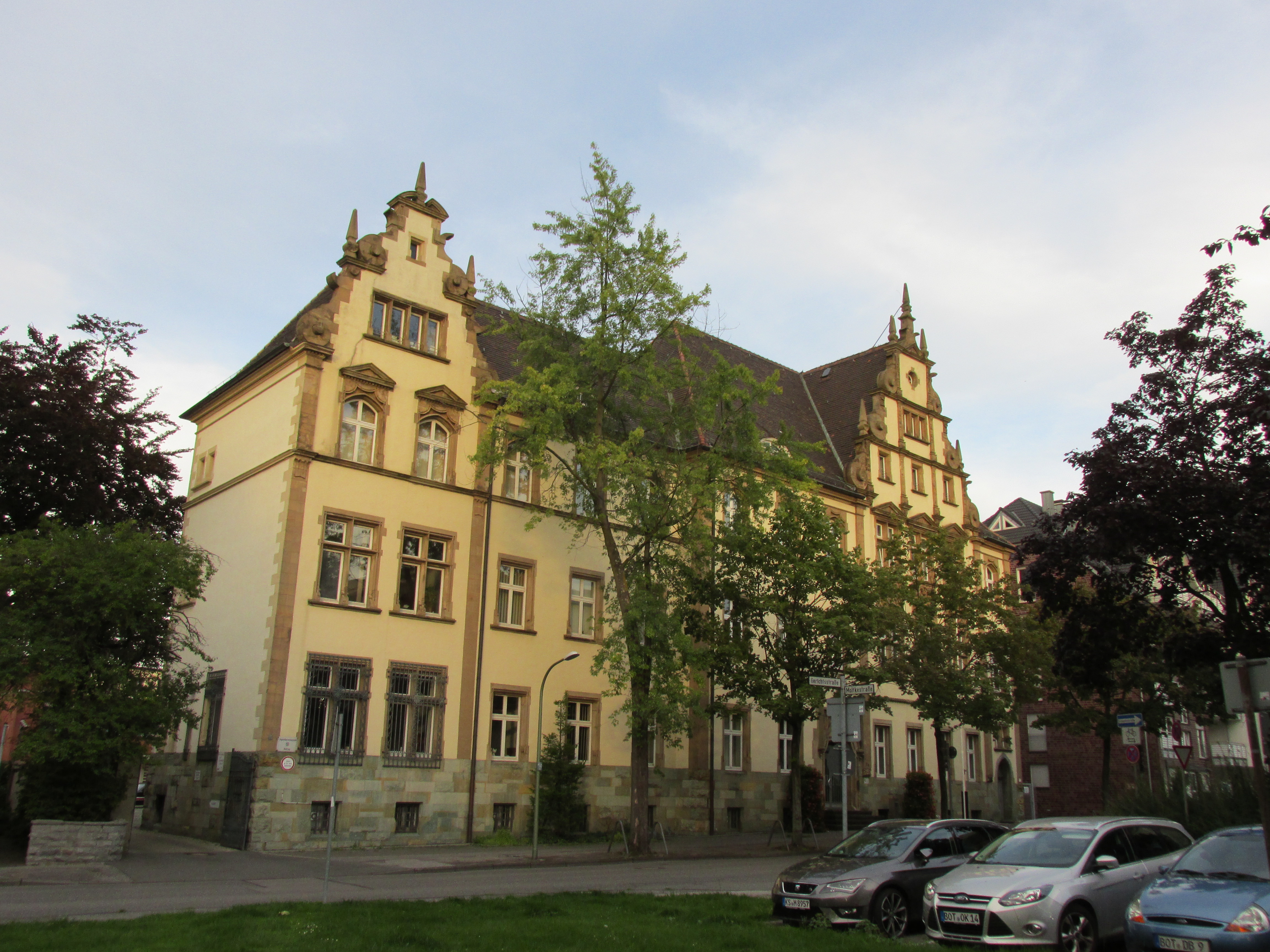 Courthouse Amtsgericht Bottrop, Bottrop, Germany